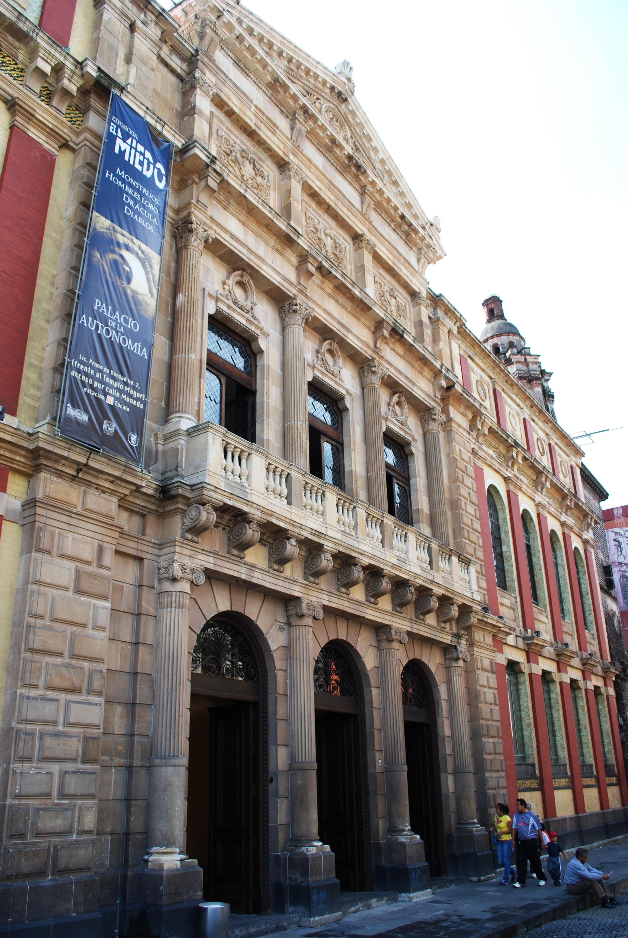 Palacio de la Autonomia in the histoic center of Mexico City